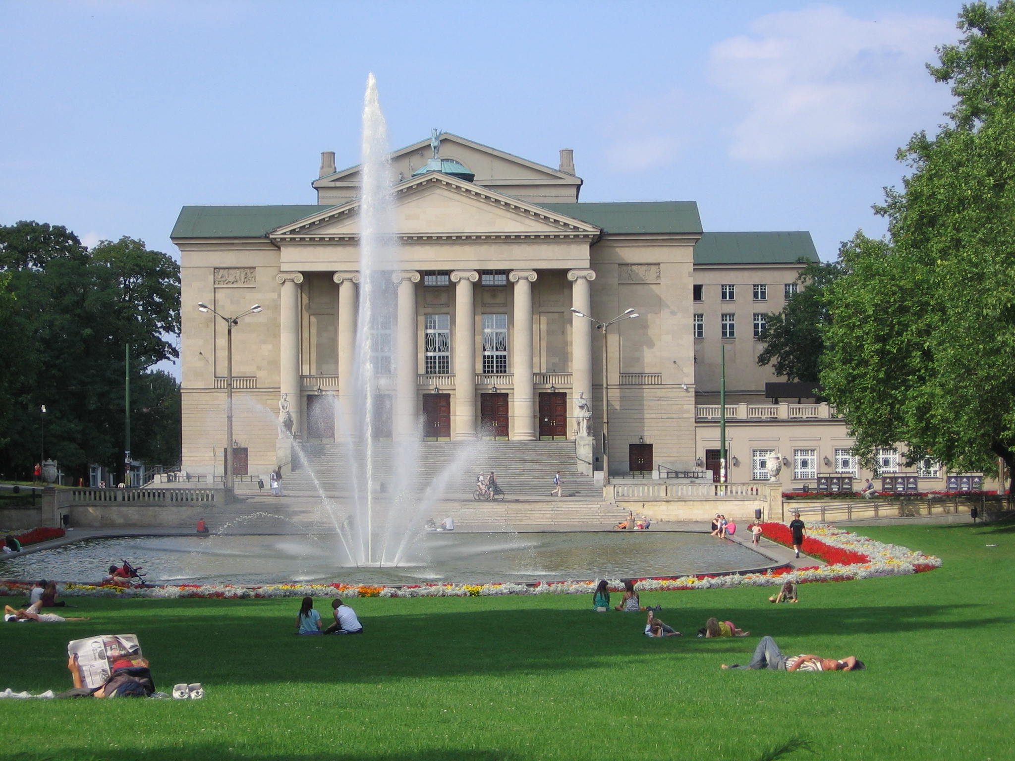 Pozna? Music and Opera House